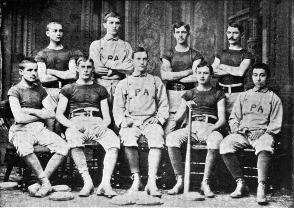 The baseball team of Phillips Academy in Andover, Massachusetts, US. Sitting in the front row on the far right is Liang Cheng, future Chinese ambassador to the United States.